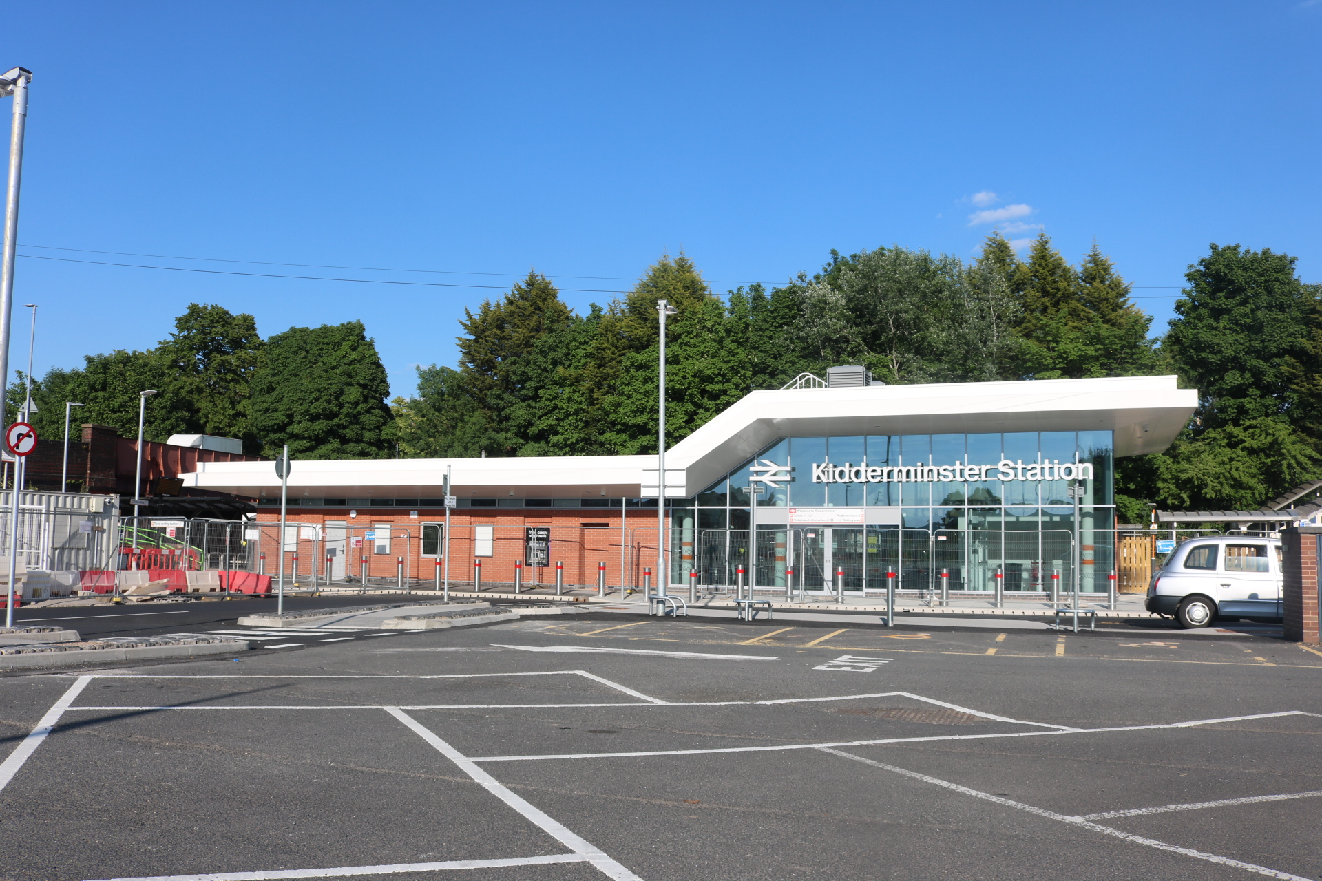 The new Kidderminster station building This is not yet open and is replacing a small brick hut on the main road.